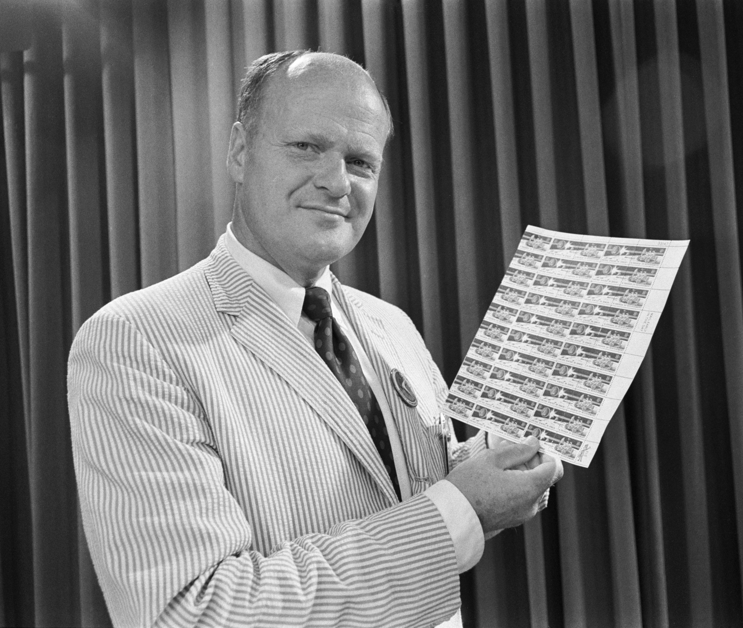 Artist Robert McCall of Paradise Valley, Arizona, holds a sheet of commemorative postage stamps commemorating the Apollo 15 lunar landing mission. McCall was chose by the U.S. Postal Service to design the eight-cent stamp which heralds: "United States in Space – A Decade of Achievement." McCall, who has maintained a close tie with the space program for many years, has been commissioned by the National Aeronautics and Space Administration to portray Apollo 15 activities from the Mission Control Center at the Manned Spacecraft Center, Houston, Texas.